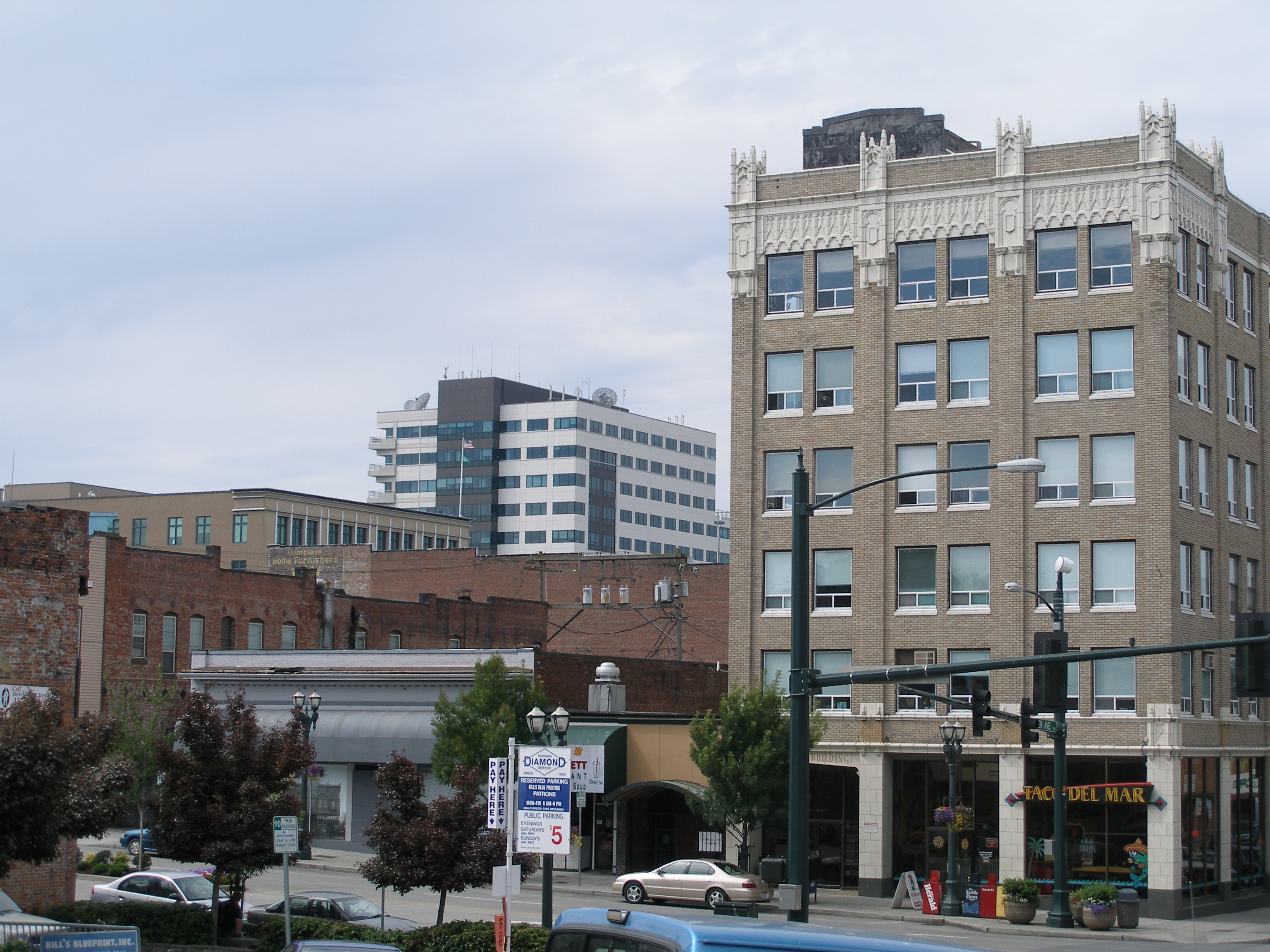 Downtown Everett, WA, looking north from near Snohomish County Government Campus.